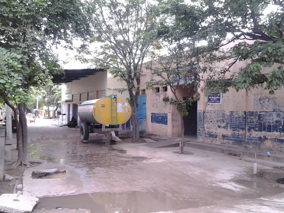 Puttareddygari Sasidhar Reddy